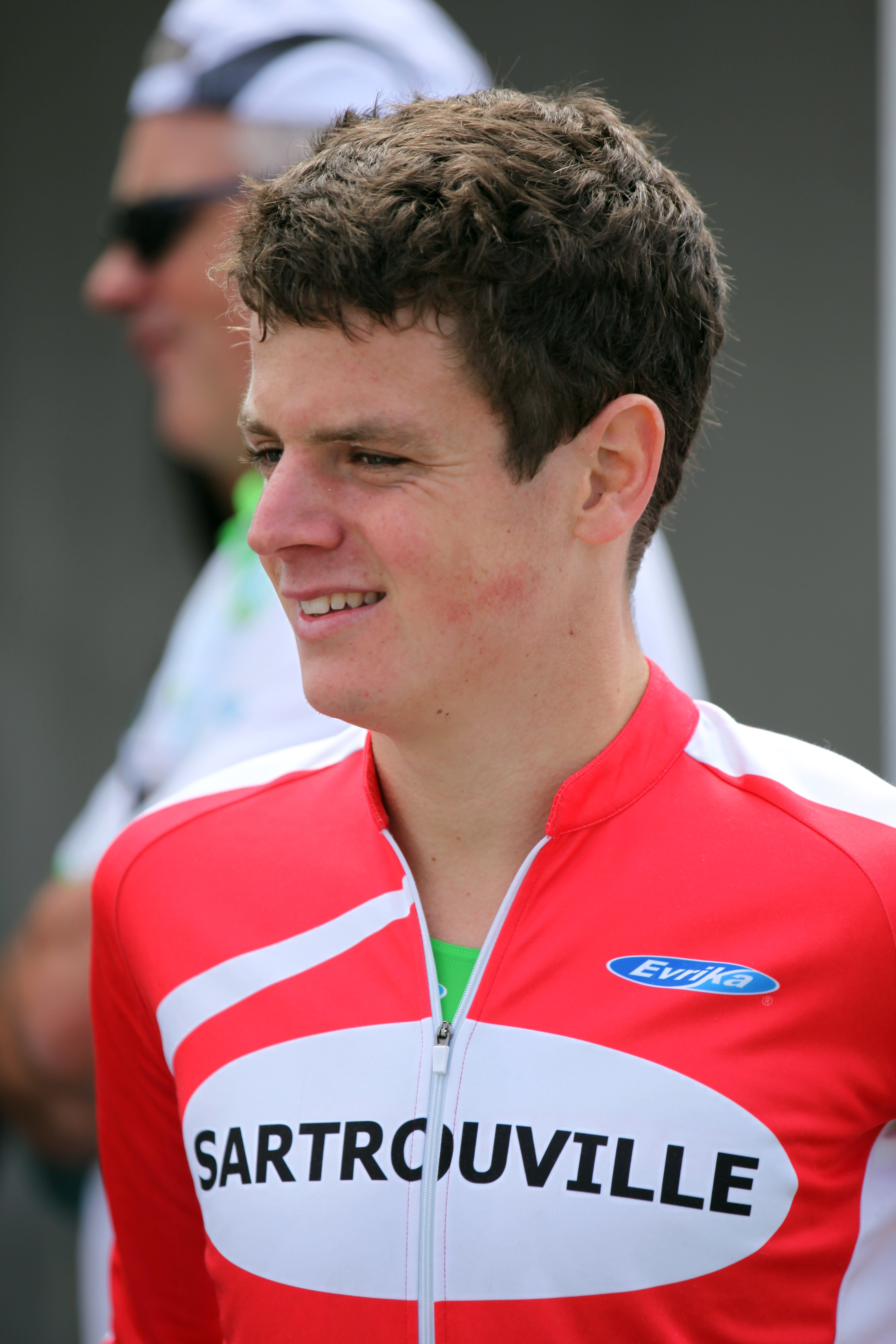 Jonathan Brownlee at the French Club Championship Series triathlon in Nice, 2011.